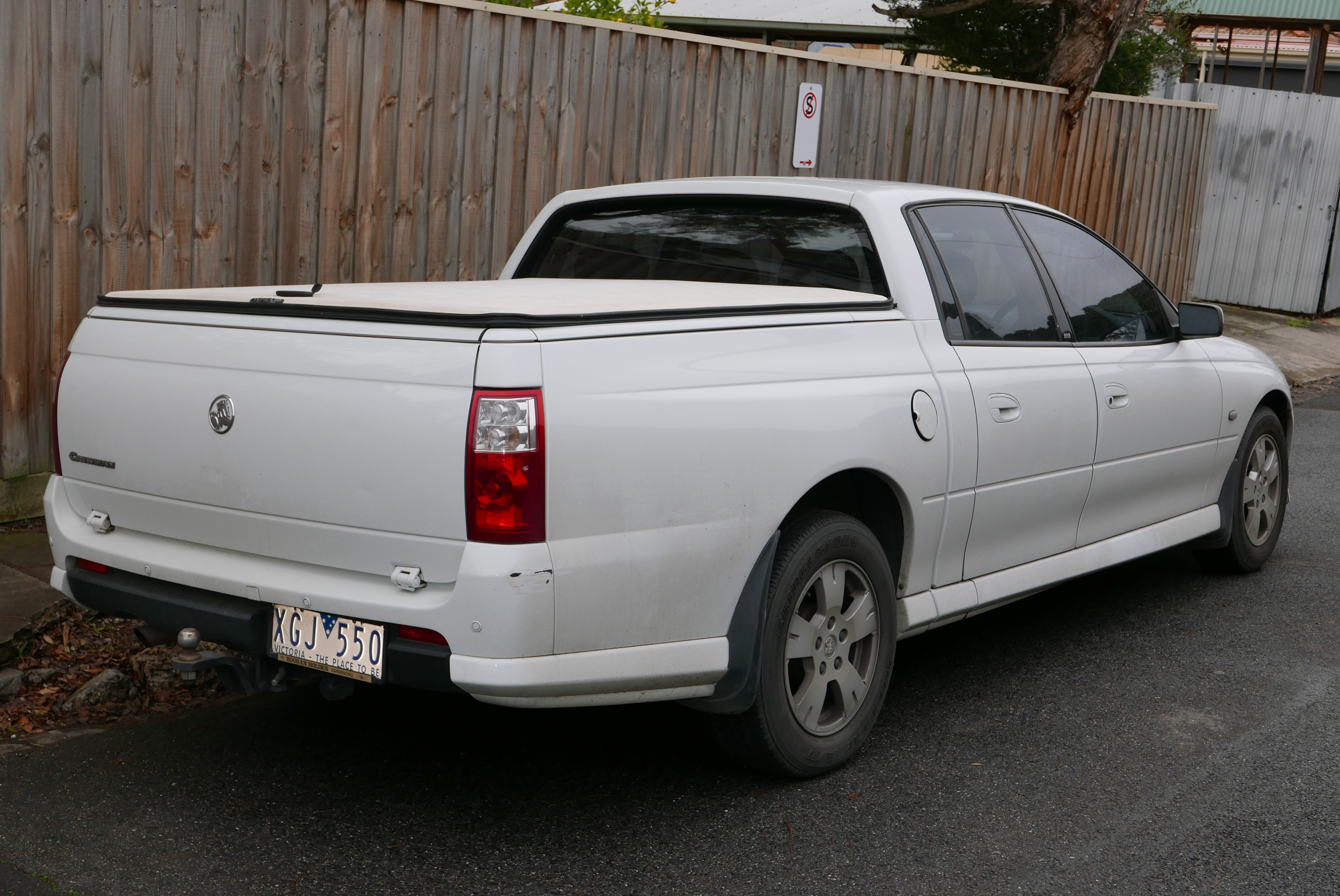 2006 Holden Crewman (VZ MY06) S utility. Photographed in Ivanhoe, Victoria, Australia. Vehicle registration enquiry resultsJurisdictionVictoriaRegistrationXGJ550Chassis code6G1ZK34B46L837321Engine codeHBH061500307Compliance date2006-06Year of manufacture2006